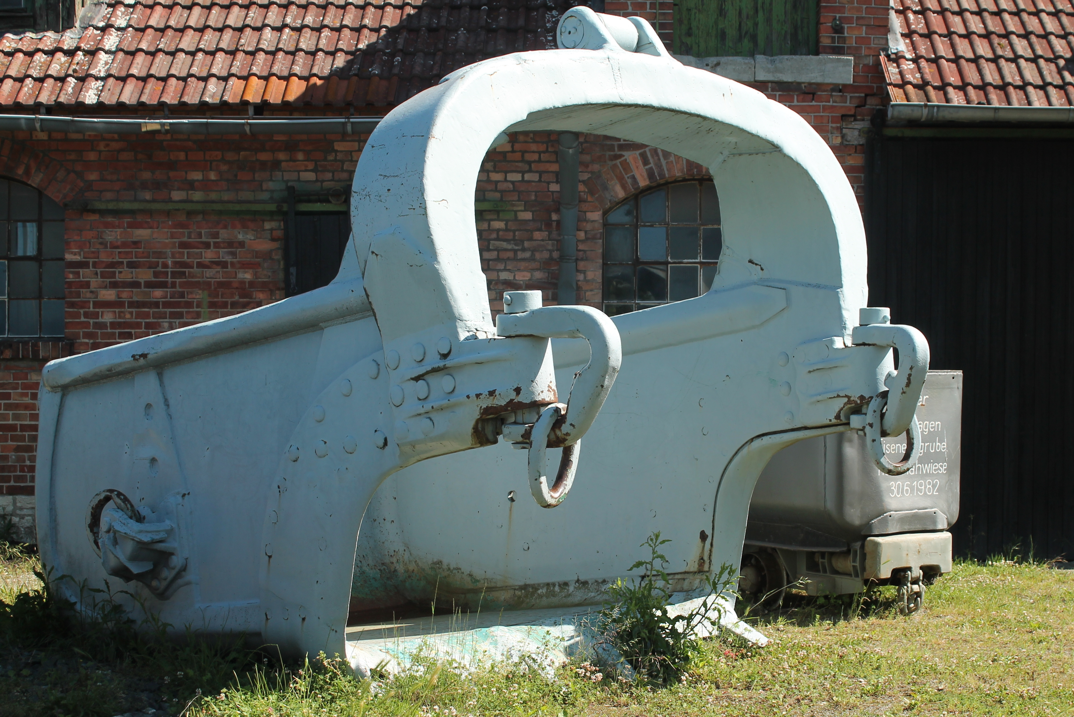 Dragline bucket. Salzgitter, Lower Saxony, Germany.